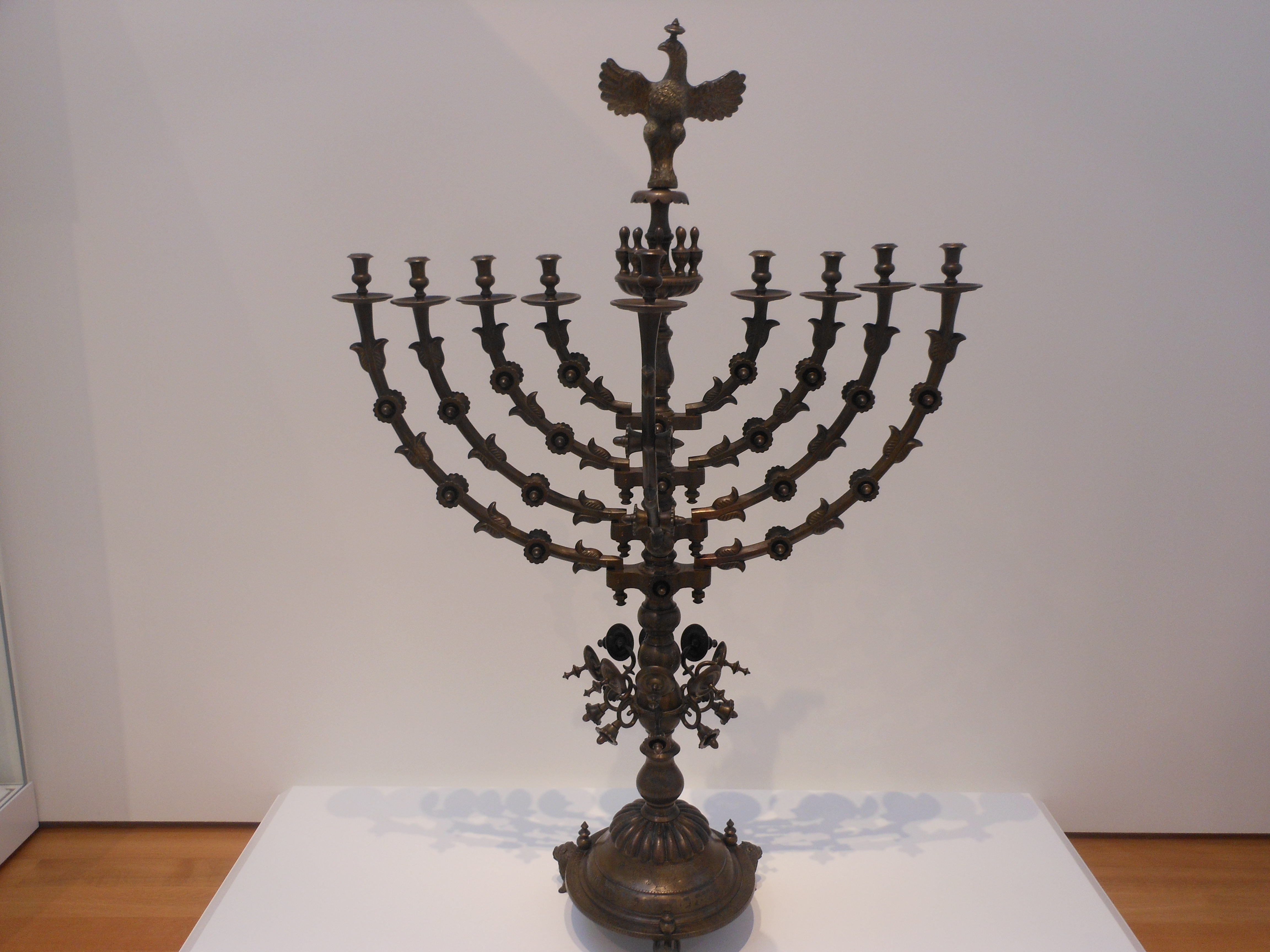 Menorah (Hanukiah), Judaic objects in the North Carolina Museum of Art